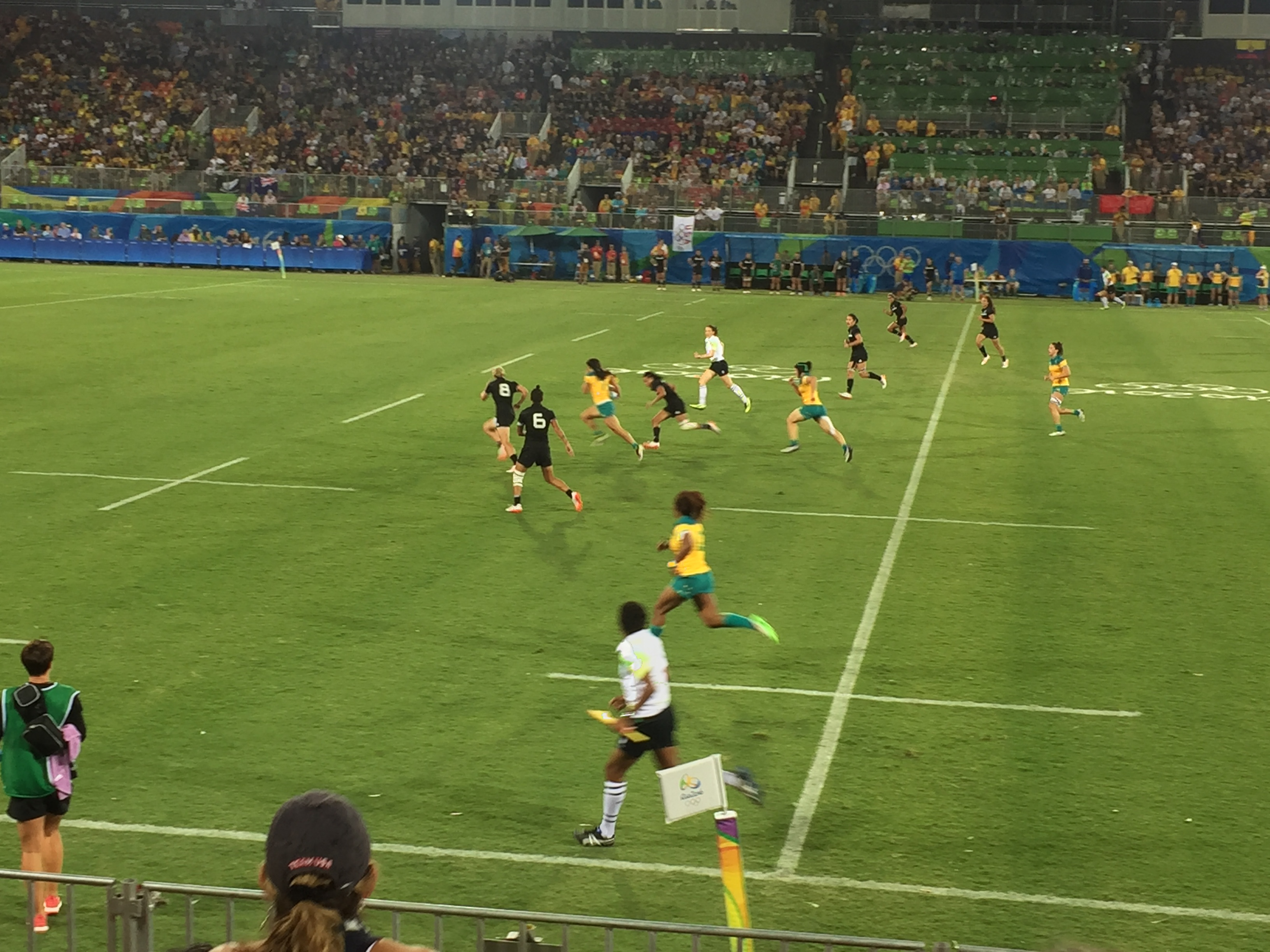 Rio 2016 Olympics - Women's rugby Stevens final